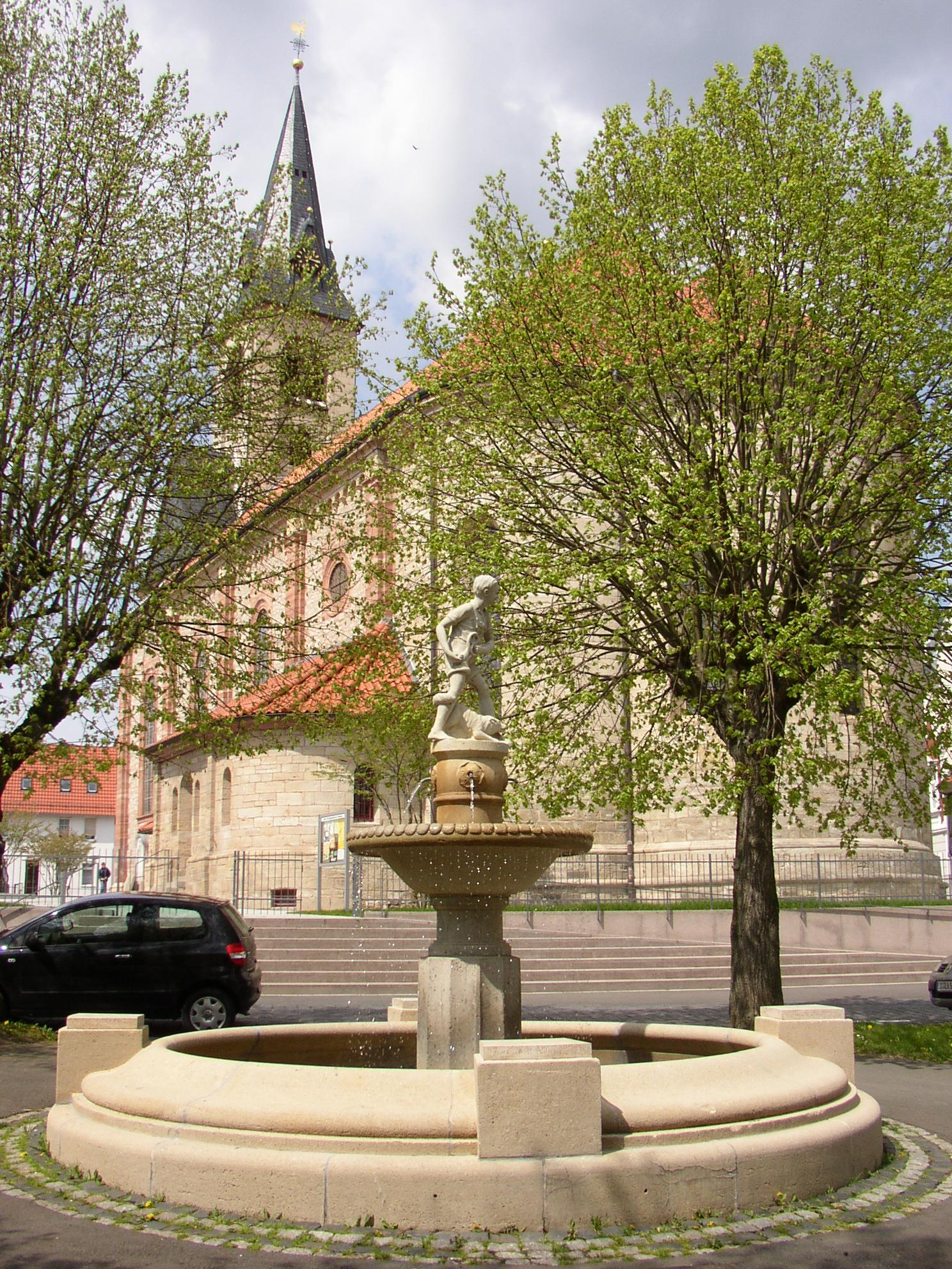 Fountain and St. Nicholas' Church in Worbis in Thuringia, Germany